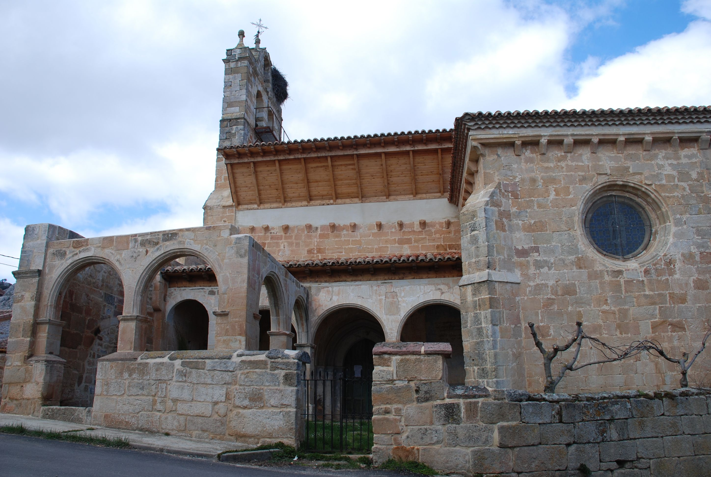 Parish Church of St. Andrew in Barrio de San Pedro (Palencia, Castile and León). Located in the Centre of the village, slightly to the Northwest of the case and scarce 50 m from the road. The Romanesque is purely anecdotal, appearing most of the building as a late Gothic work with remoces neo-classical and Baroque. Box walls rises in excellent sandstone Ashlar yellow stripe and fine-grained that sometimes alternating with other coarser grain appreciated conglomerado as gradient ashlars. The tardorrománico building was raise a single nave, which subtracts the West with the steeple on Gable, steeple that follows the traditional, with a smooth downstairs and bells with two bays slightly pointed, now blind to add in the 18th century this structure a second body of bells, with two embrasures semicircular and auction in sprocket body schema section temple with Campanile and ball decoration. The header is preserved a series of modillones, some decorated with motifs animalísticos as a bird of prey devouring its prey in the North-East angle, prótomos of Canids and other vegetal decoration, or simply profile of ship. The carving can be Gothic pieces that follow the reused Romanesque canecillos models.